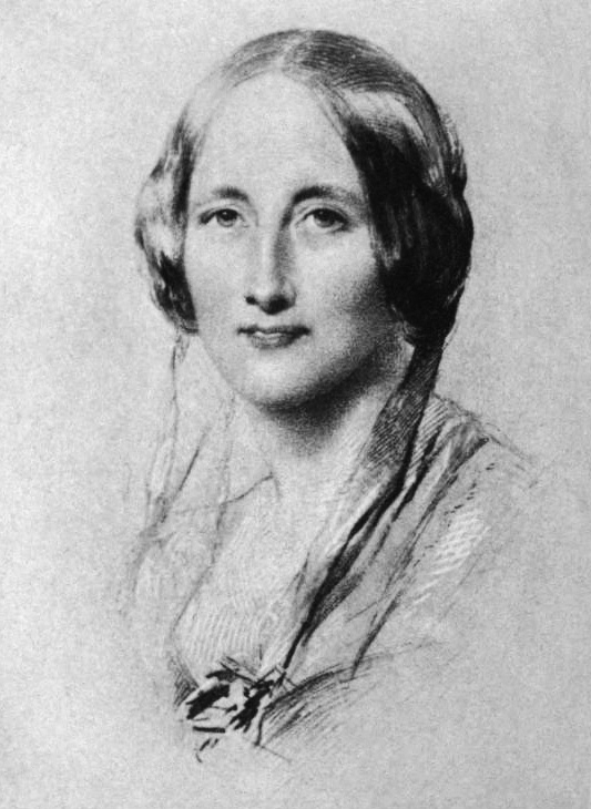 Portrait of Elizabeth Gaskell by George Richmond (1851) Scanned by Phrood. Quelle: selbst gescannt 02:45, 6. Jul 2005 Phrood 790 x 1076 (82225 Byte) (Elizabeth Gaskell, gemeinfrei)